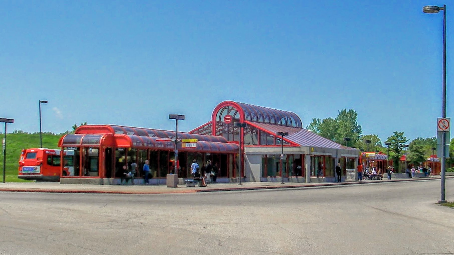 View of Ottawa, Ontario's Hurdman transit station from the south-southeast in April 2009. Uploaded with PD license to facilitate cropping, adjustments, etc. (Original version from camera)